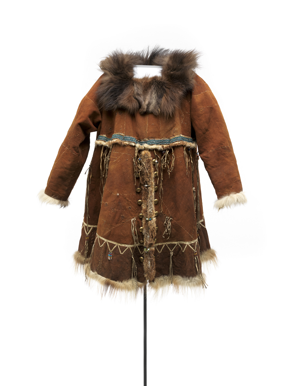 Pels uden hætte til festbrug. Fremstillet af rensdyrskind med hårsiden indad. Kødsidens røde farve skyldes antageligt garvning med ellebark. Krave af ulveskind og på forsiden et skind, antagelig fra hermelin. Dekoration af perler, messingknapper og frynser. Pelsen har lige kanter forneden. Fra Kamtjatka. Fra Etnografisk Central-Museum i Moskva 1927. Hoodless reindeer skin parka for festive use with hair side inward. The red colour of the flesh side is probably from tanning with alder bark. Collar of wolf skin, and as decoration on the front a skin probably from ermine. Decoration of beads, brass buttons and fringes. The parka has straight edges below. From Kamchatka. From Ethnographic Central Museum in Moscow, 1927. Foto: Roberto Fortuna